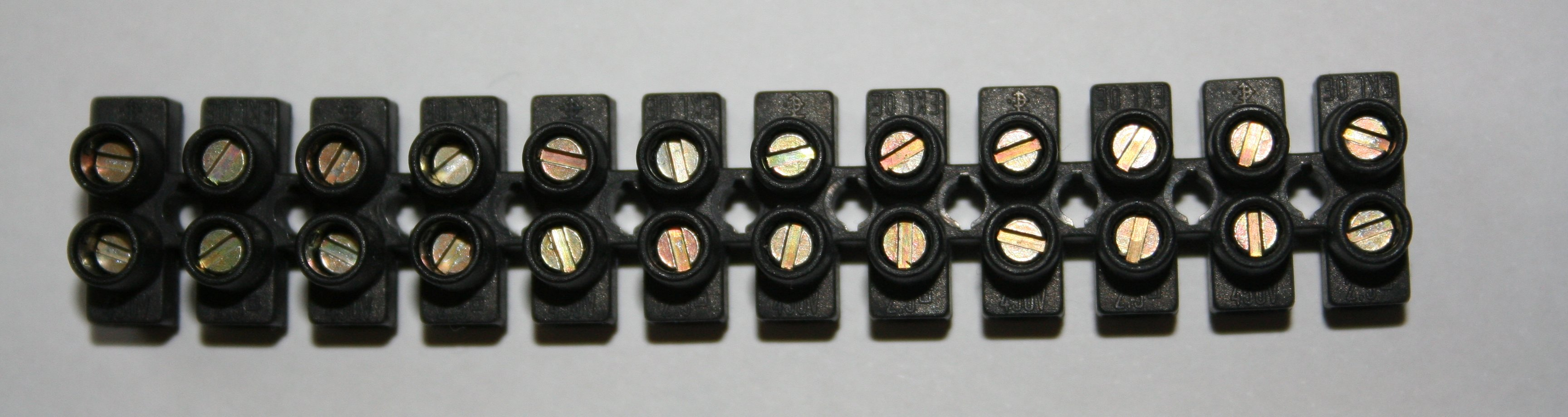 Screw terminal